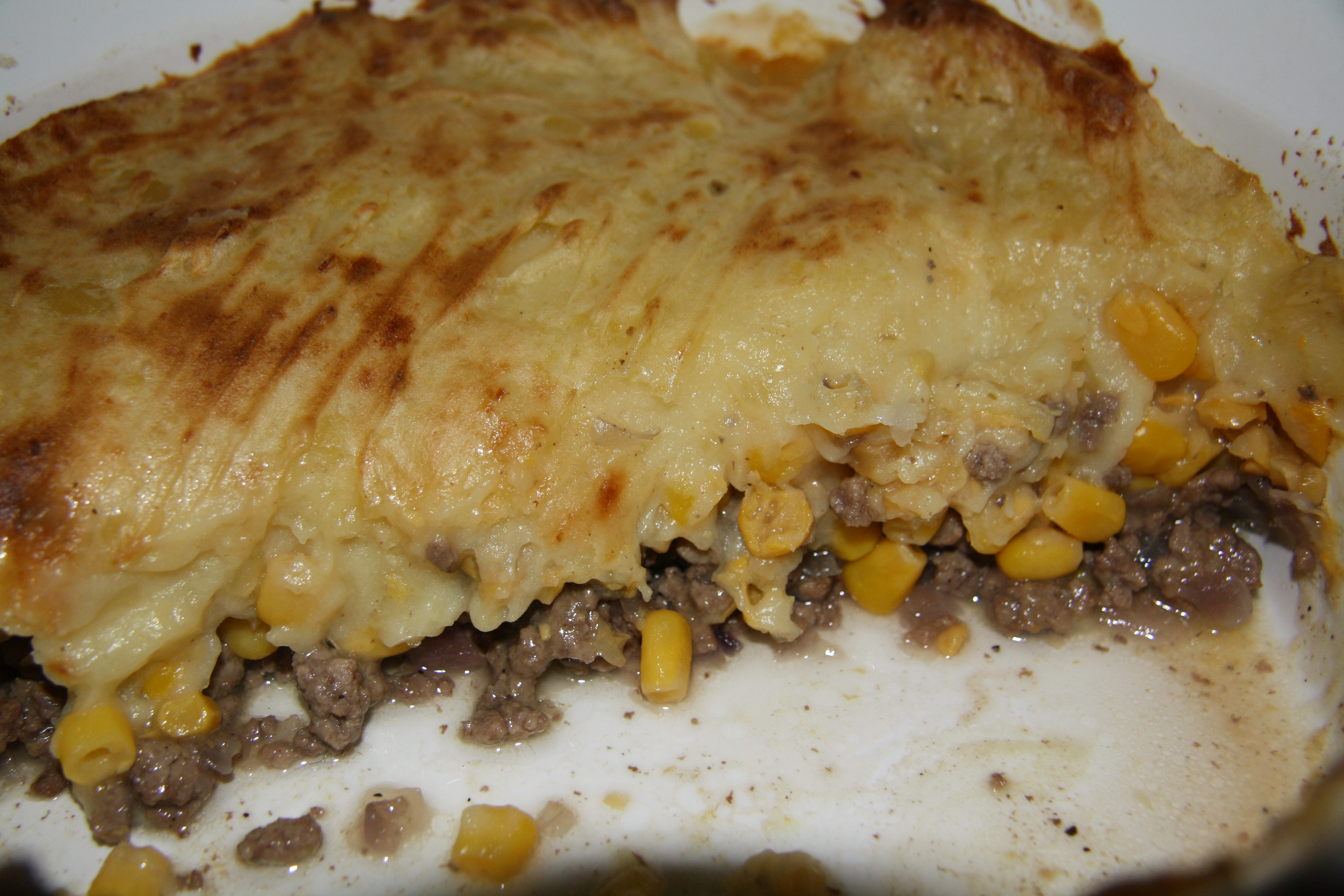 Half a casserole of pâté chinois. This one has browned onions, no bell peppers, half nibblets, half cream corn.